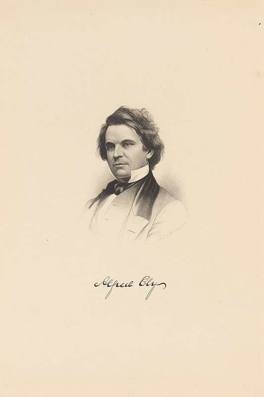 Alfred Ely (1815-1892)